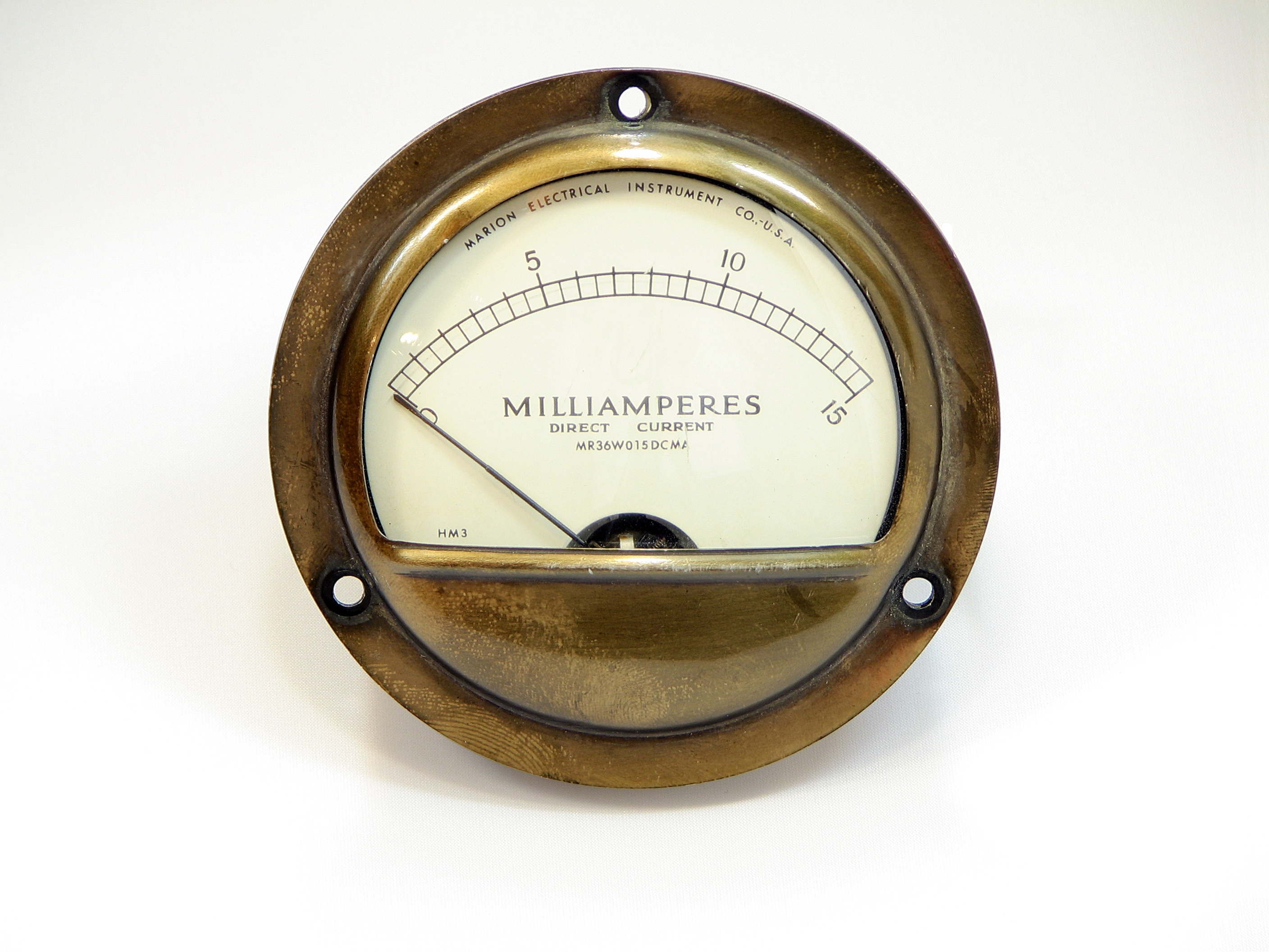 A vintage ampere meter.